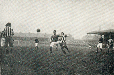 Photo of an FA Cup semi-final between Woolwich Arsenal and Newcastle United at the Victoria Ground, Stoke.